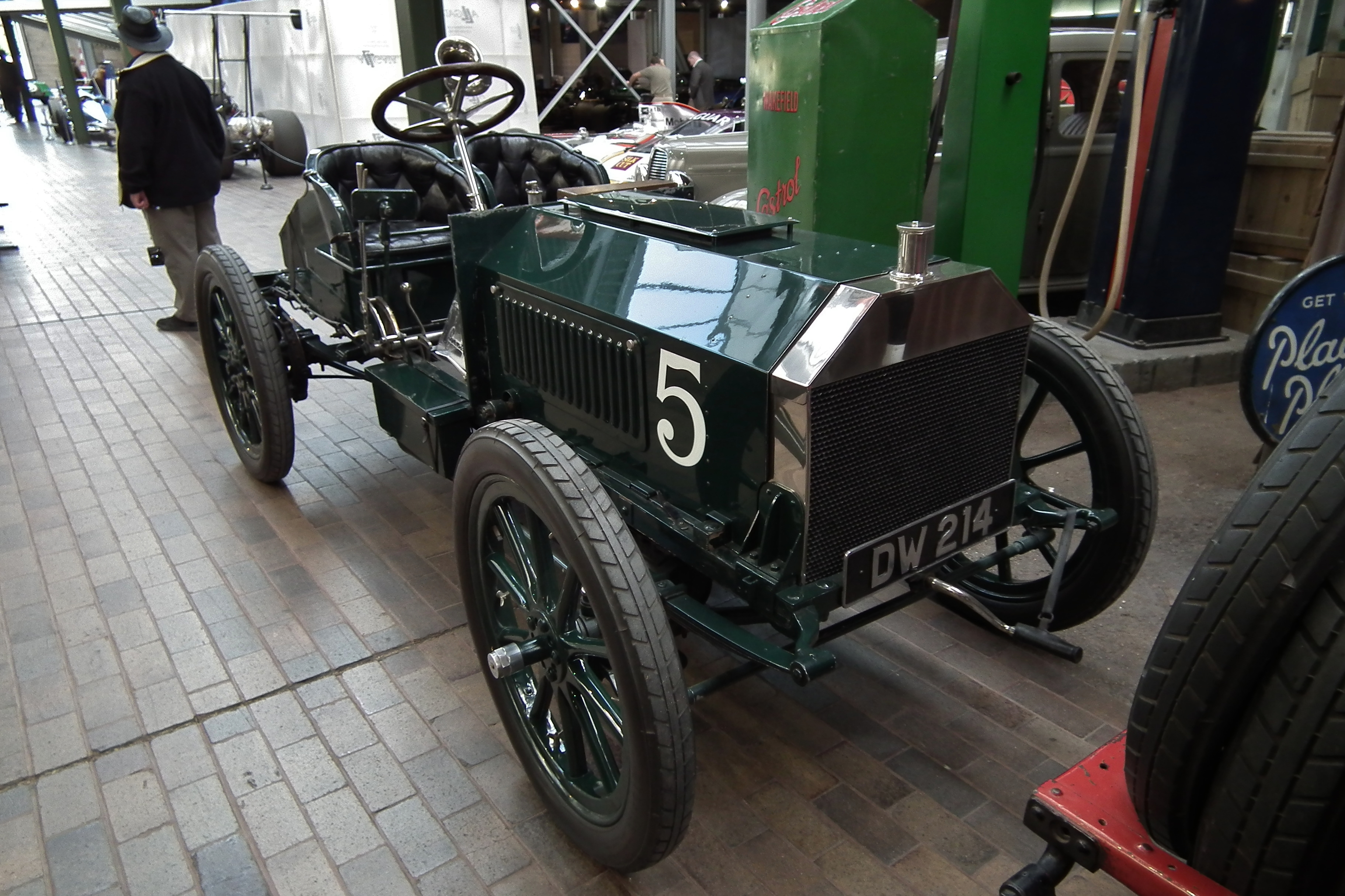 1903 Napier "Gordon Bennett". Taken at the National Motor Museum in Beaulieu, Hampshire, England.